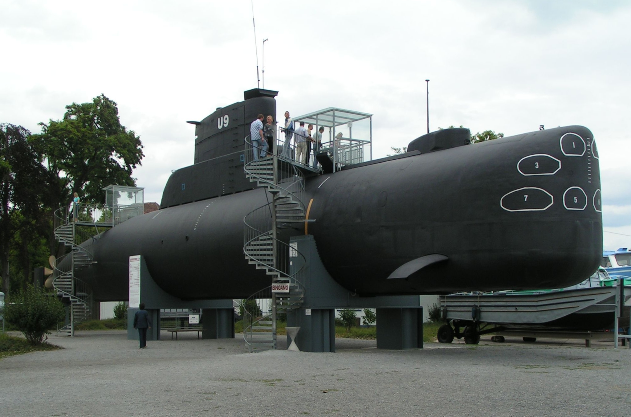 German museum ship U-9, a Type 205 submarine now placed in Technikmuseum Speyer, Germany.